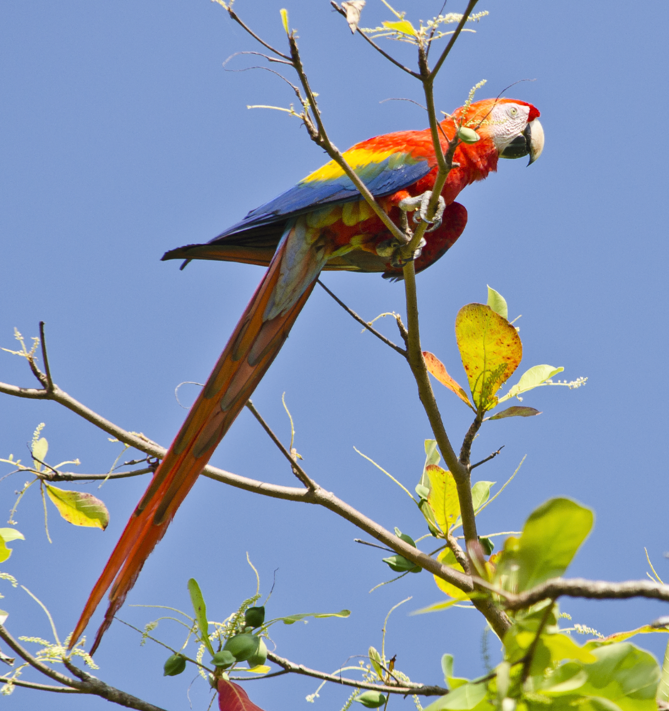 A Scarlet Macaw in Puntarenas Province, Costa Rica.